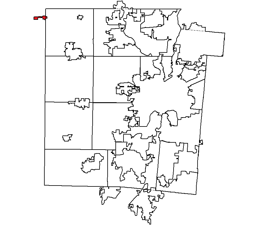 self-created from US Census Bureau shapefiles